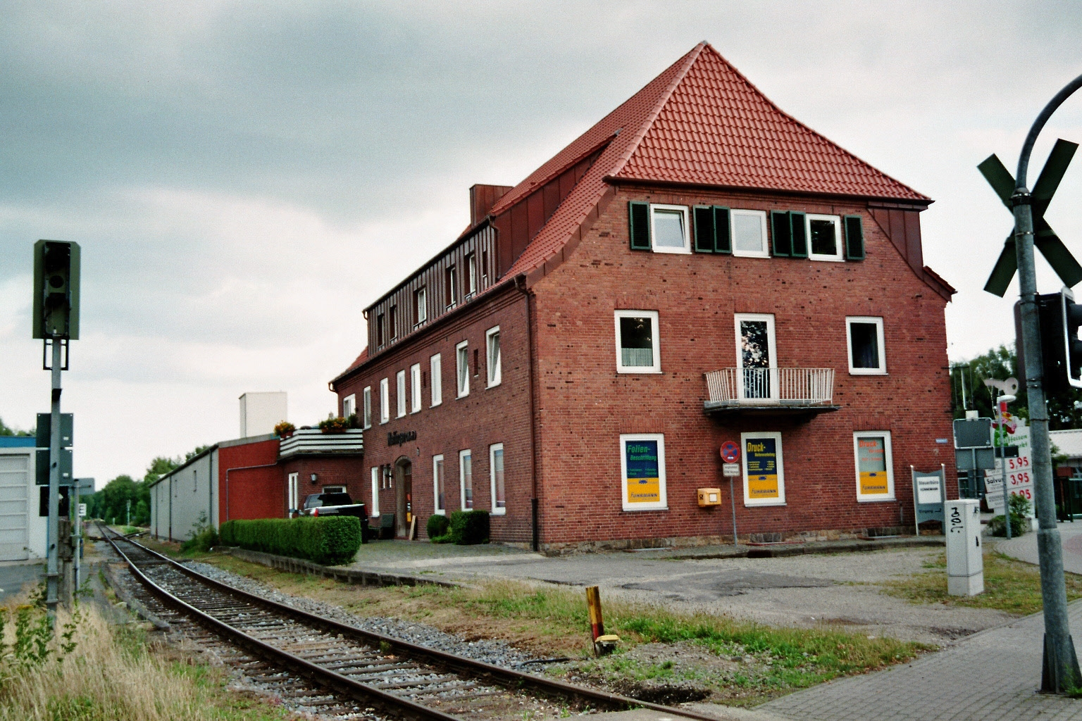 Former train station of Mettingen, Kreis Steinfurt, North Rhine-Westphalia, Germany.